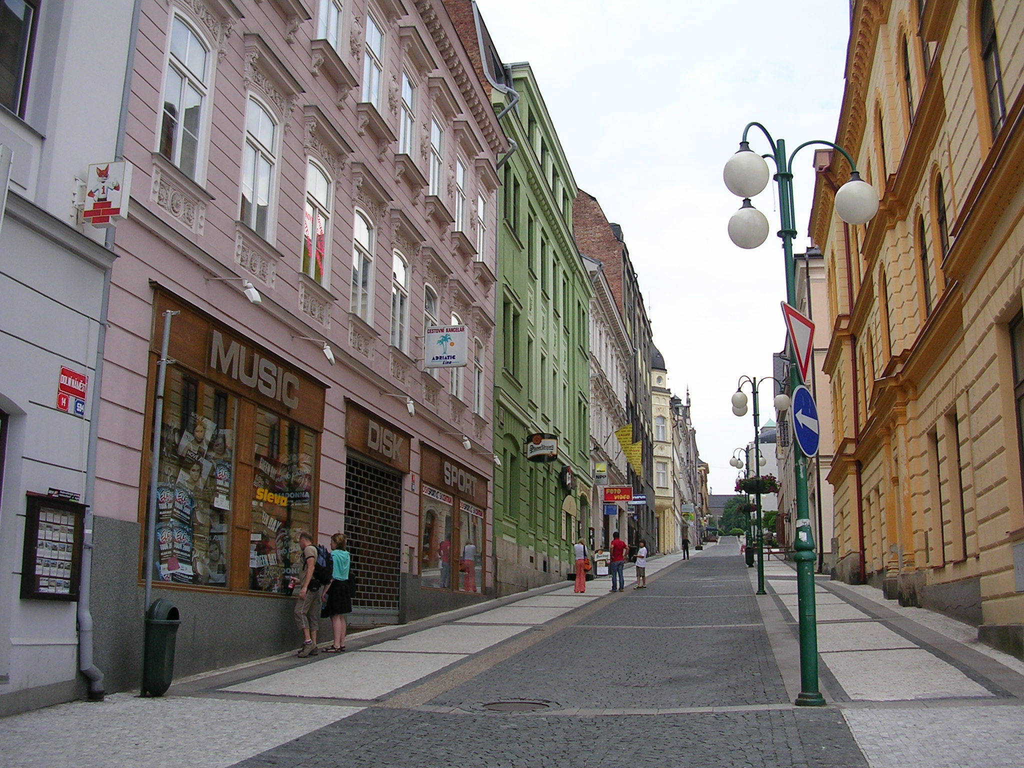 Jablonec nad Nisou. The Czech Republic. - Google Maps - Google Earth